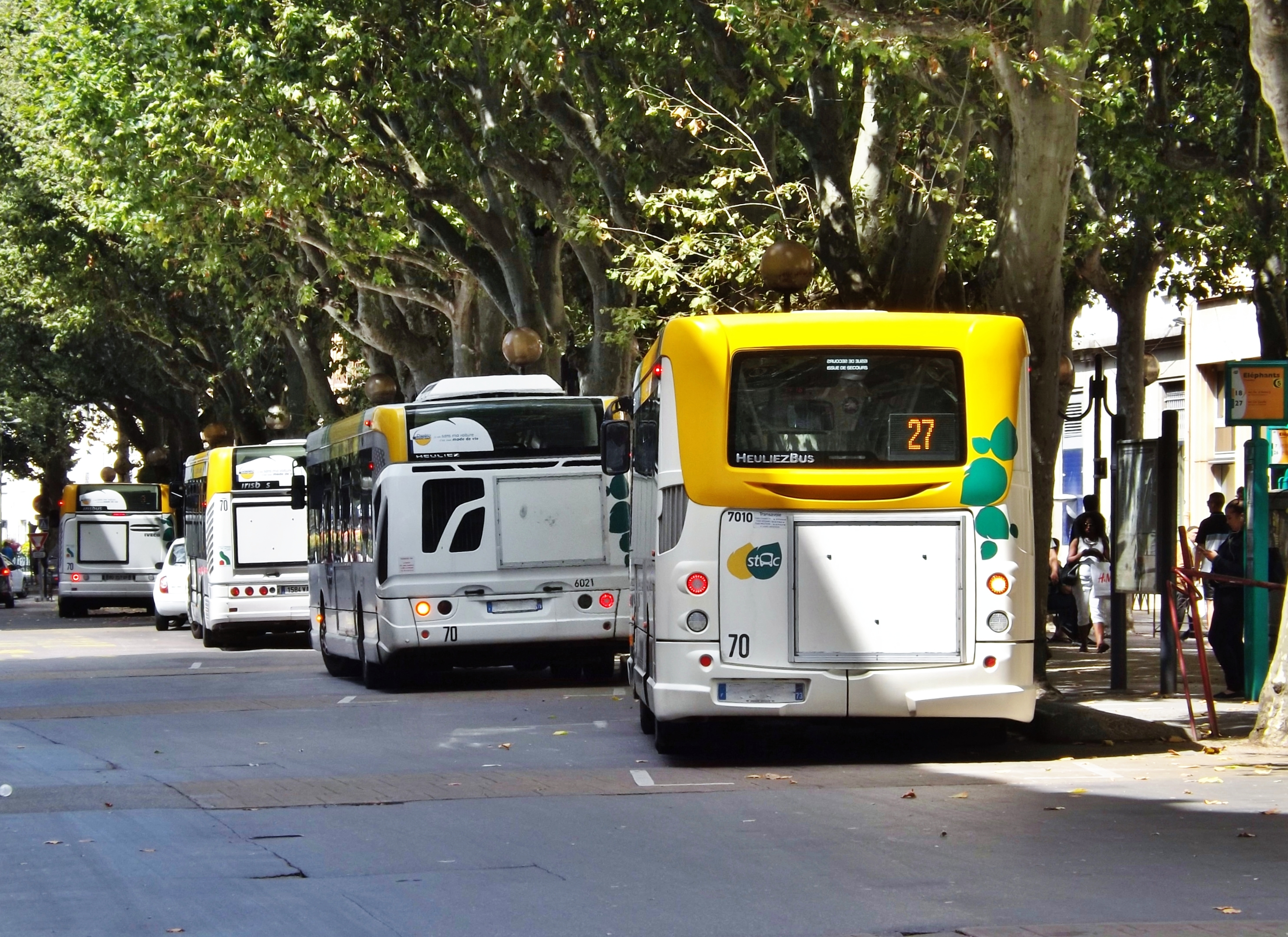 Sight of buses of STAC network on the Boulevard de la Colonne boulevard of Chambéry (Savoie, France), in August 2016. In a few days all buses will be withdrawn from this boulevard.